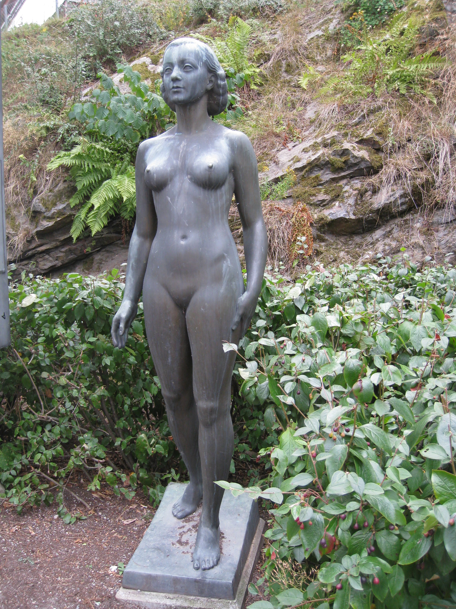 Karl Hultström (1884-1973), sculpture "Woman" in bronze at Alviks Terrace, Gustavslundsvägen 149A in Alviks strand, Bromma, in the plantation, in front of the house with Bromma district administration.